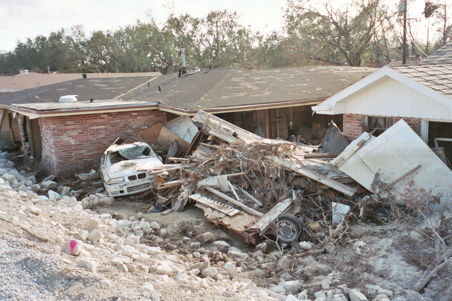 New Orleans after Hurricane Katrina: ruined residential along Pratt Street around upper breach of London Avenue Canal. Photo by Infrogmation, November 2005.